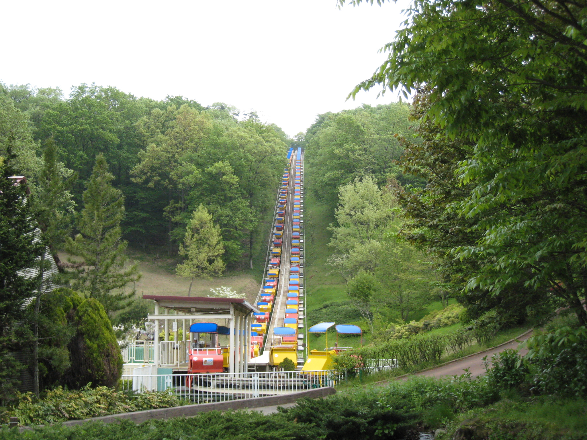 Panorama chair at Gunma Kodomo-no-Kuni(or Children's Land) in Ota,Gunma Prefecture,Japan